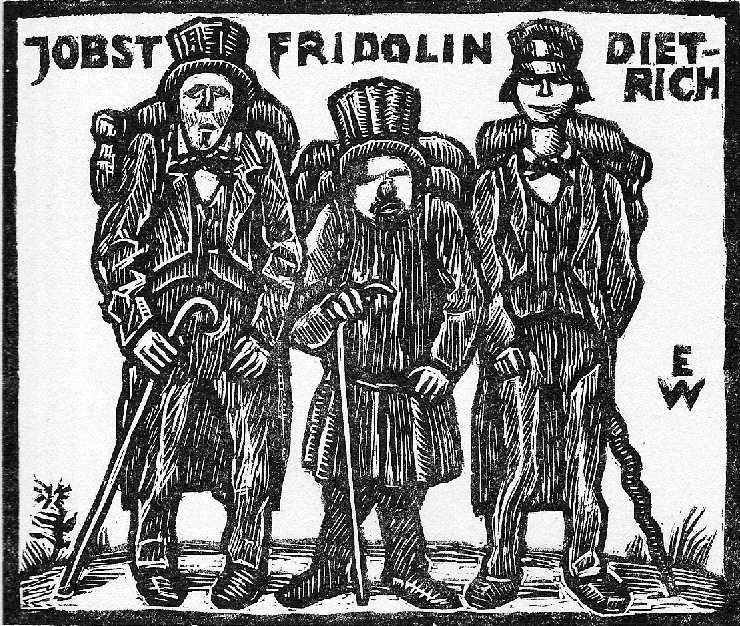 The three honest combmakers